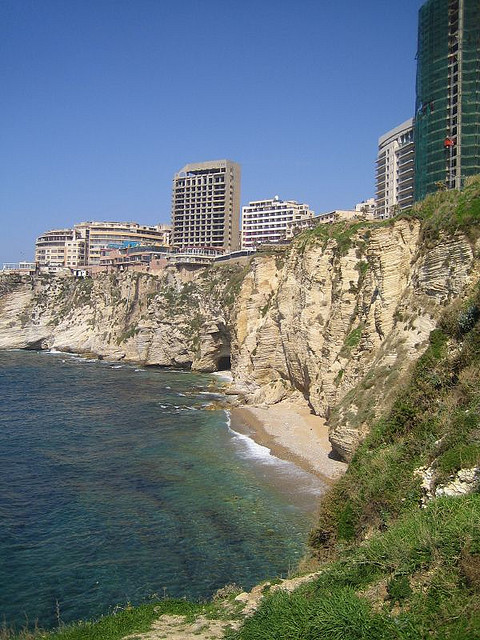 Shoreline North of Pigeon Rocks in Raocha (West Beirut) 2005.